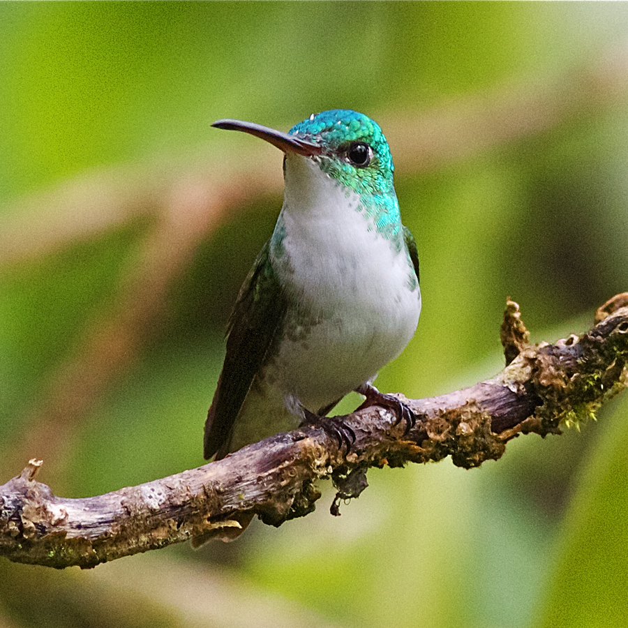 Andean Emerald photo taken at Tandayapa Bird Lodge (west slope), Ecuador.